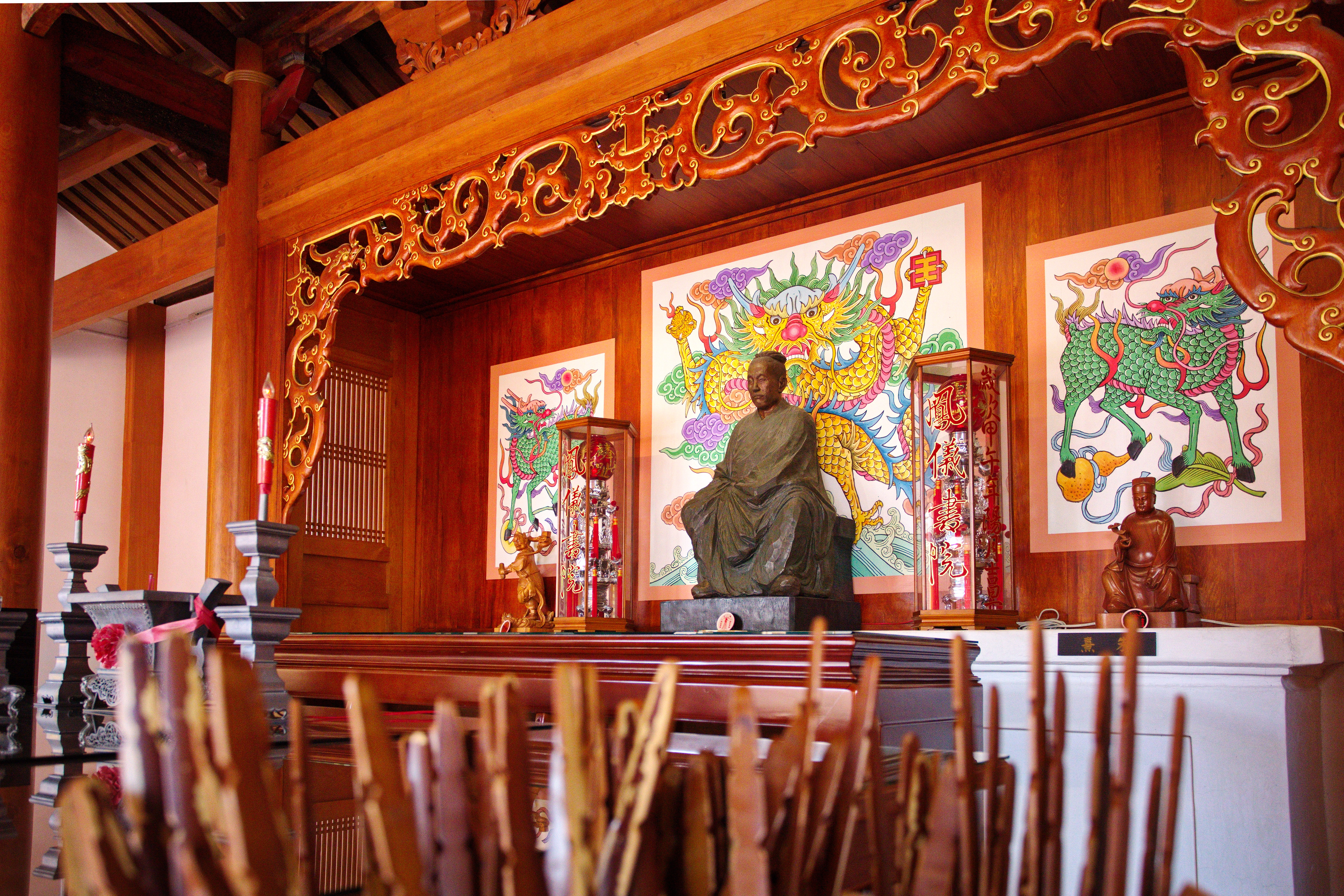 Wenchang Shrine of the Fongyi Tutorial Academy, Fongshan District, Kaohsiung City, Taiwan.